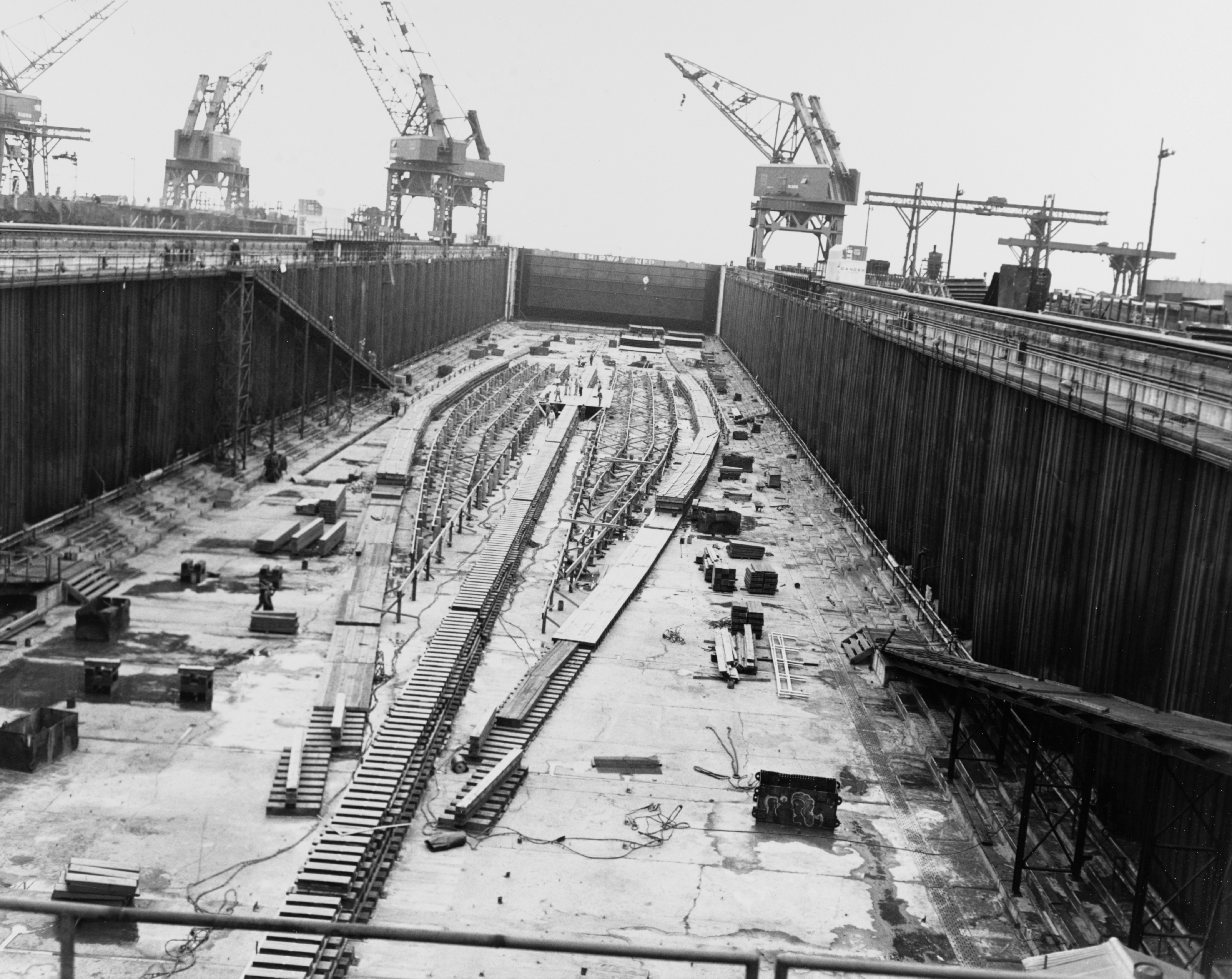 The keel plate of the U.S. Navy aircraft carrier USS United States (CVA-58) being laid in a construction dry dock at the Newport News Shipbuilding and Dry Dock Company shipyard, Newport News, Virginia (USA), 18 April 1949. The carrier was cancelled a few days later, on 23 April.